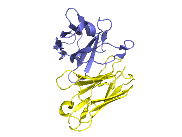 Cartoon representation of the antibody Golimumab. The heavy and light chains are coloured blue and yellow respectively. From PDB entry Template:PDBe